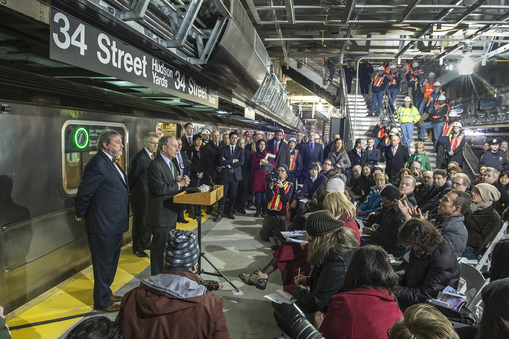 Mayor Michael R. Bloomberg joined MTA officials and other local leaders and took the first ride on the extension of the 7 Subway line, terminating at the new subway station located at 34th Street and Eleventh Avenue in Manhattan. Photo: MTA / Patrick Cashin Mayor and MTA Officials Ride 7 Line Extension